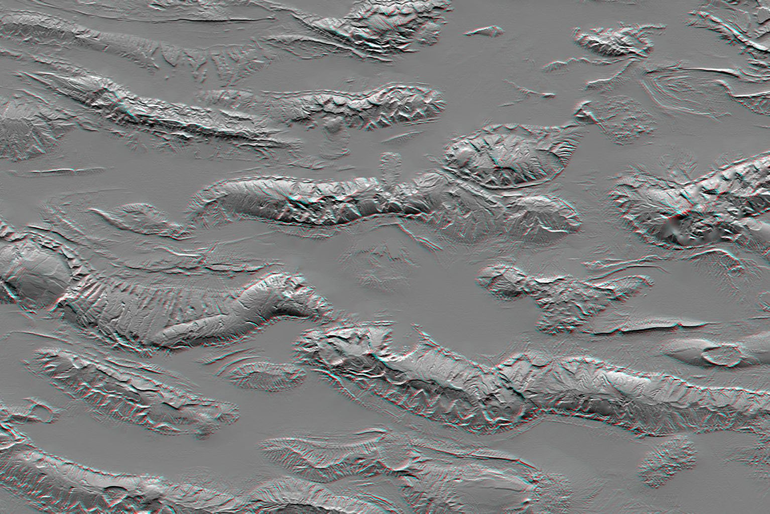 The Zagros Mountains in Iran offer a visually stunning topographic display of geologic structure in layered sedimentary rocks. This scene is nearly 100 kilometers (62 miles) wide but is only a small part of similar terrain that covers much of southern Iran. This area is actively undergoing crustal shortening, as global tectonics moves Arabia toward Asia. Consequently, layers of sedimentary rock are folding much like a carpet will fold if pushed. The convex upward folds create structures called anticlines, which are prominently seen here. The convex downward folds (between the anticlines) create structures called synclines, which are mostly buried and hidden by sediments eroding off the anticlines. Layers having differing erosional resistance create distinctive patterns, often sawtooth triangular facets, that encircle the anticlines. Local relief between the higher mountain ridges and their intervening valleys is about 1,200 meters (about 4,000 feet).